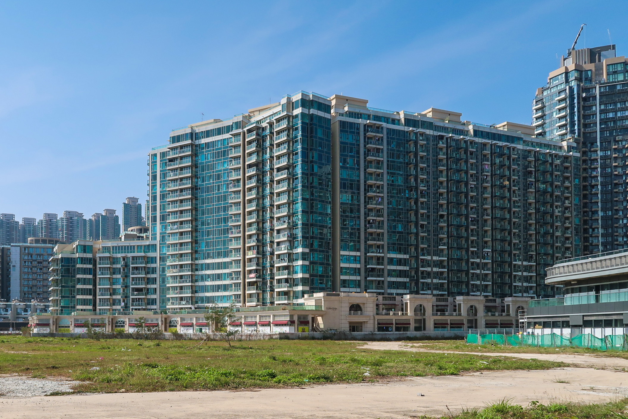 Corinthia by the Sea